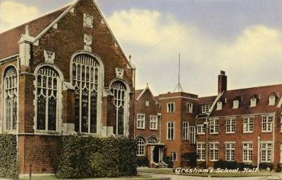 Colour postcard published c. 1920 of the Gresham's School, Holt, Main Building, including Big School, completed and opened 1903.